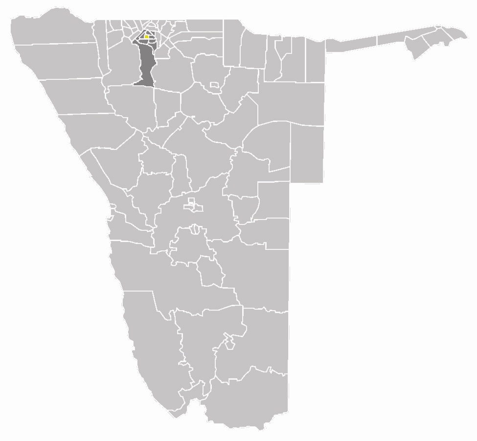 map of the Oshakati East constituency within the Oshana region, Namibia